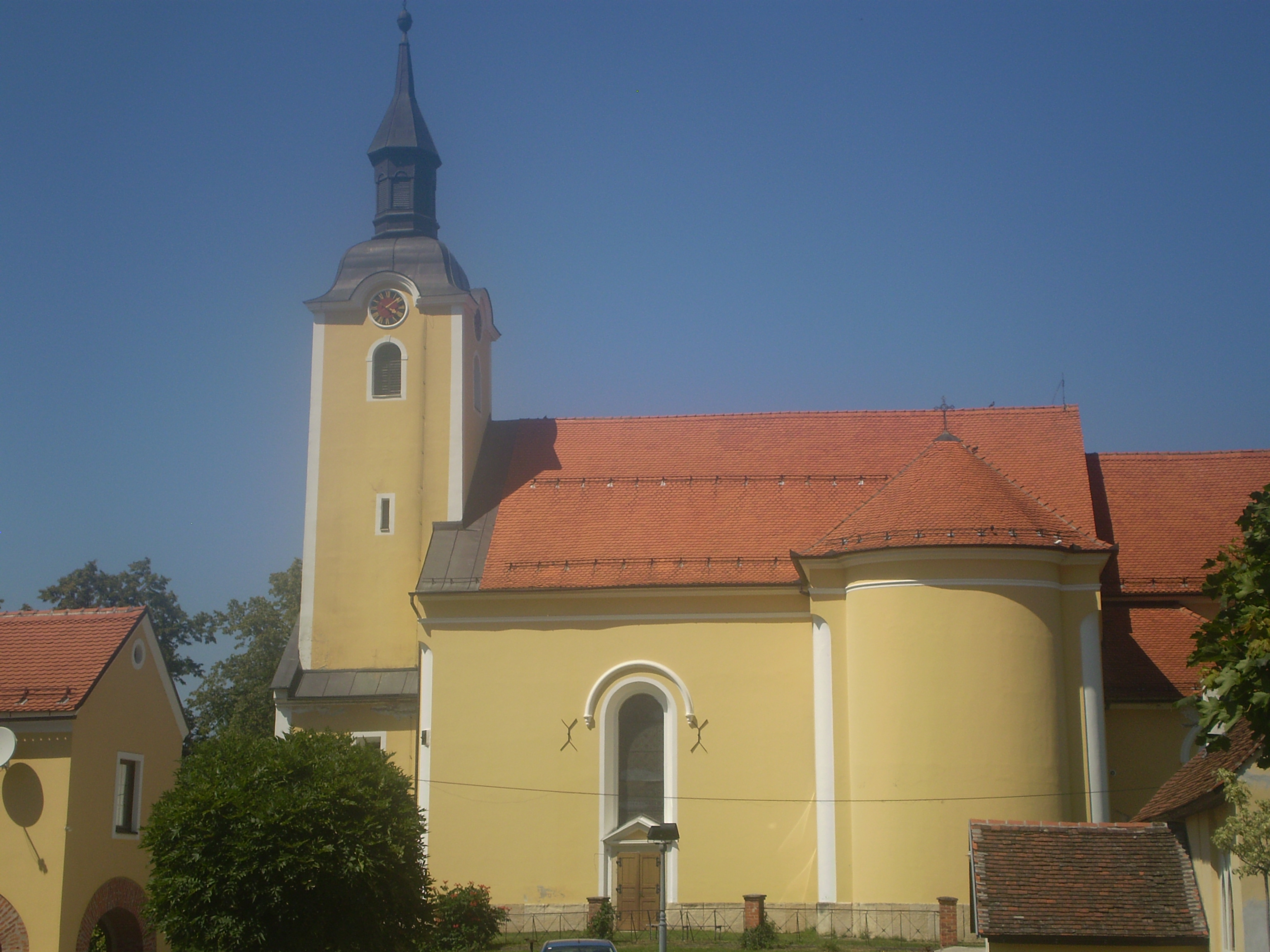 Photo of church st. Marija Magdalena in Ivanec, Croatia.